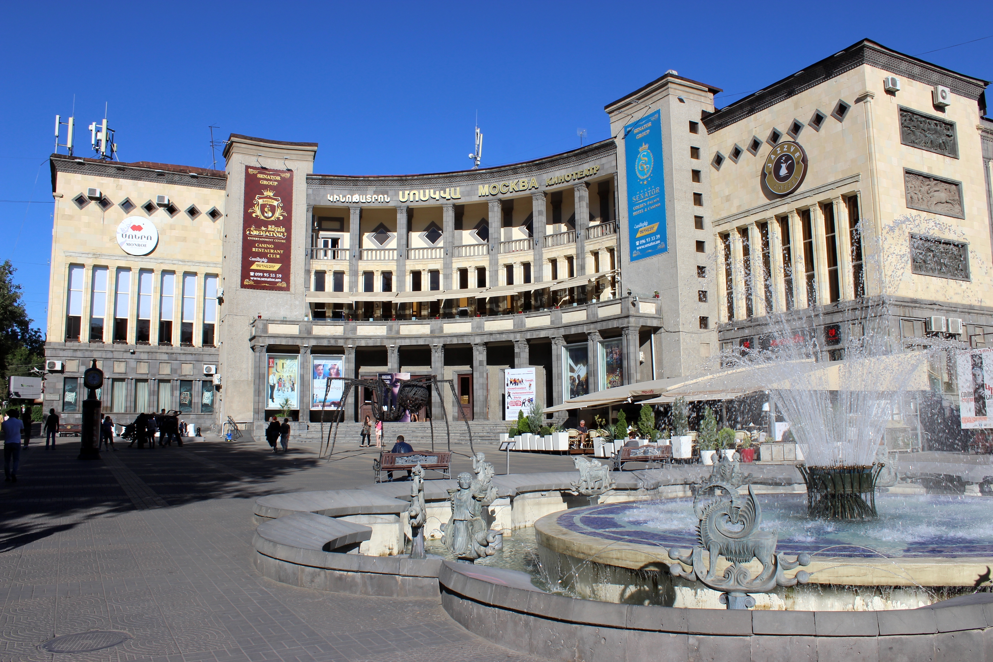 Moscow Cinema in Yerevan, Armenia on September 2014